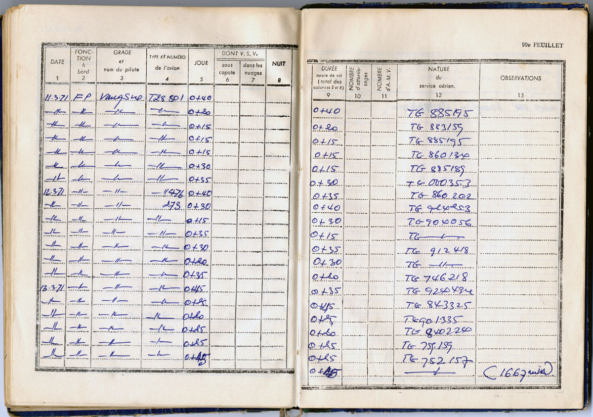 This is a scan of two pages from Vang Seu's earlier flight log showing 1,667 sorties flown. This is one of two logs--the second is reported to have been lost when he was shot down by enemy Laotians in 1972.